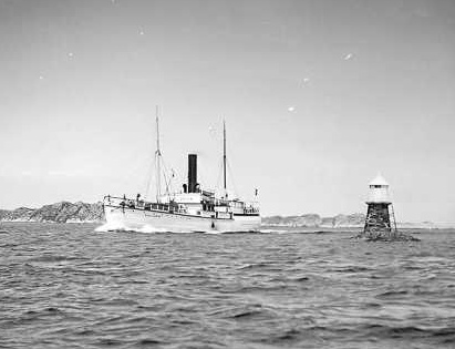 Norwegian passenger ship SS Excellensen owned by Arendal Dampskibsselskab (Arendal steamship company). This ship was built in 1859 for a Swedish company